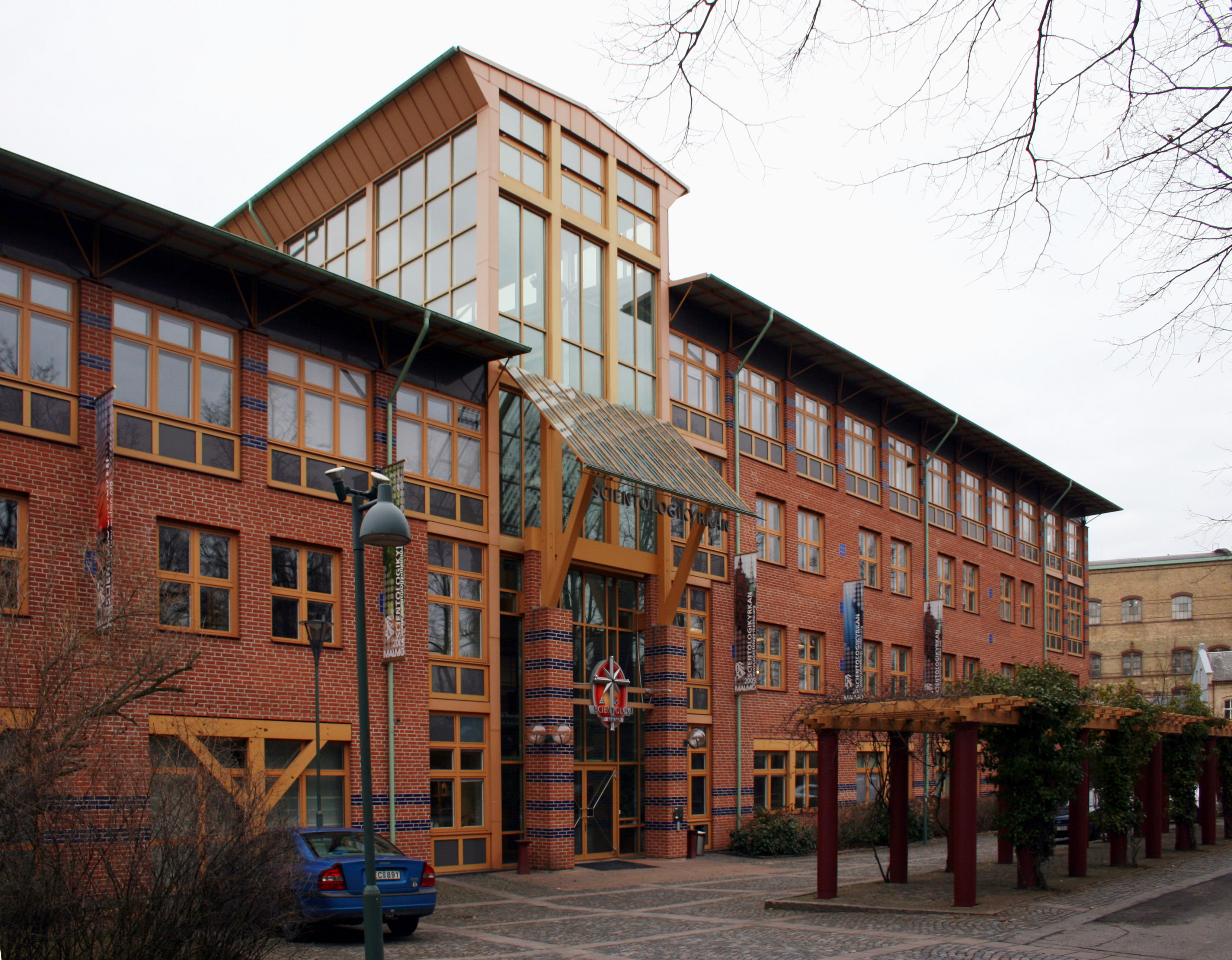 Church of Scientology Malmö, actually located in nearby Arlöv. The church purchased the property from Danisco Sugar for SEK 50 million and had a big fundraising drive, making it one of their new "Ideal Orgs". It was